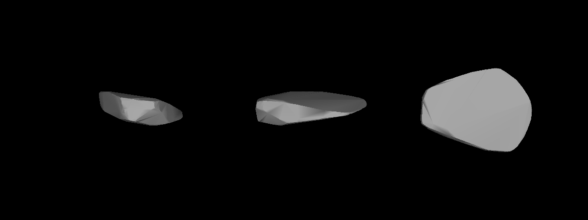 A three-dimensional model of 1527 Malmquista that was computed using light curve inversion techniques.